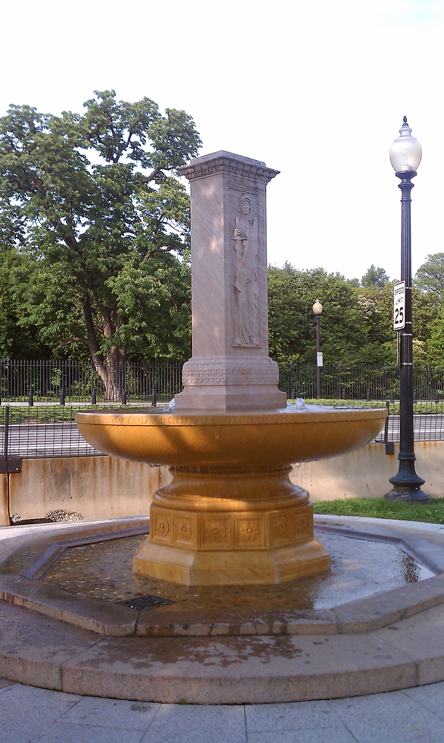 Looking northeast at the Butt-Millet Memorial Fountain near The Ellipse (the southern portion of the President's Park) in Washington, D.C., in the United States. This memorial fountain was erected in October 1912 in memory of Major Archibald Butt (military aide to President William Howard Taft) and Francis Davis Millet (painter). Both men died during the sinking of the RMS Titanic in April 1912.